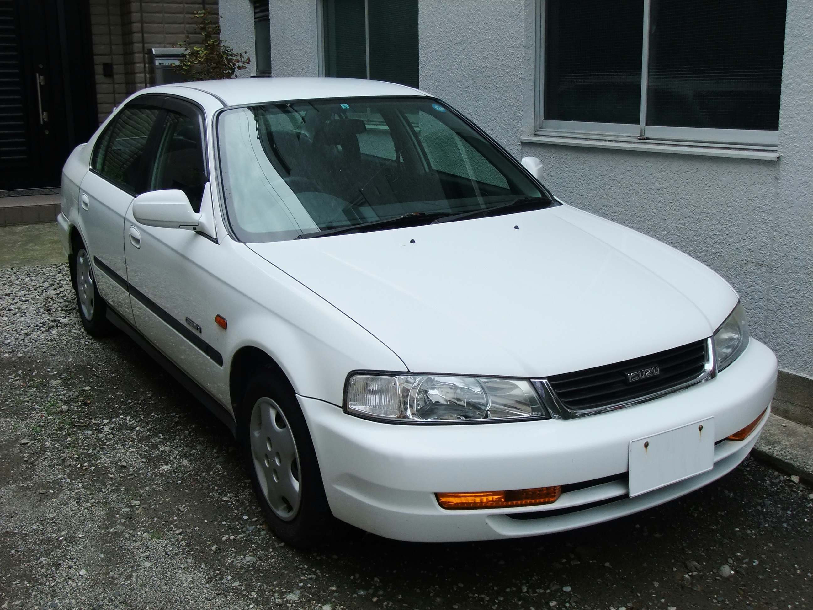 ISUZU, Gemini, 5th Generation